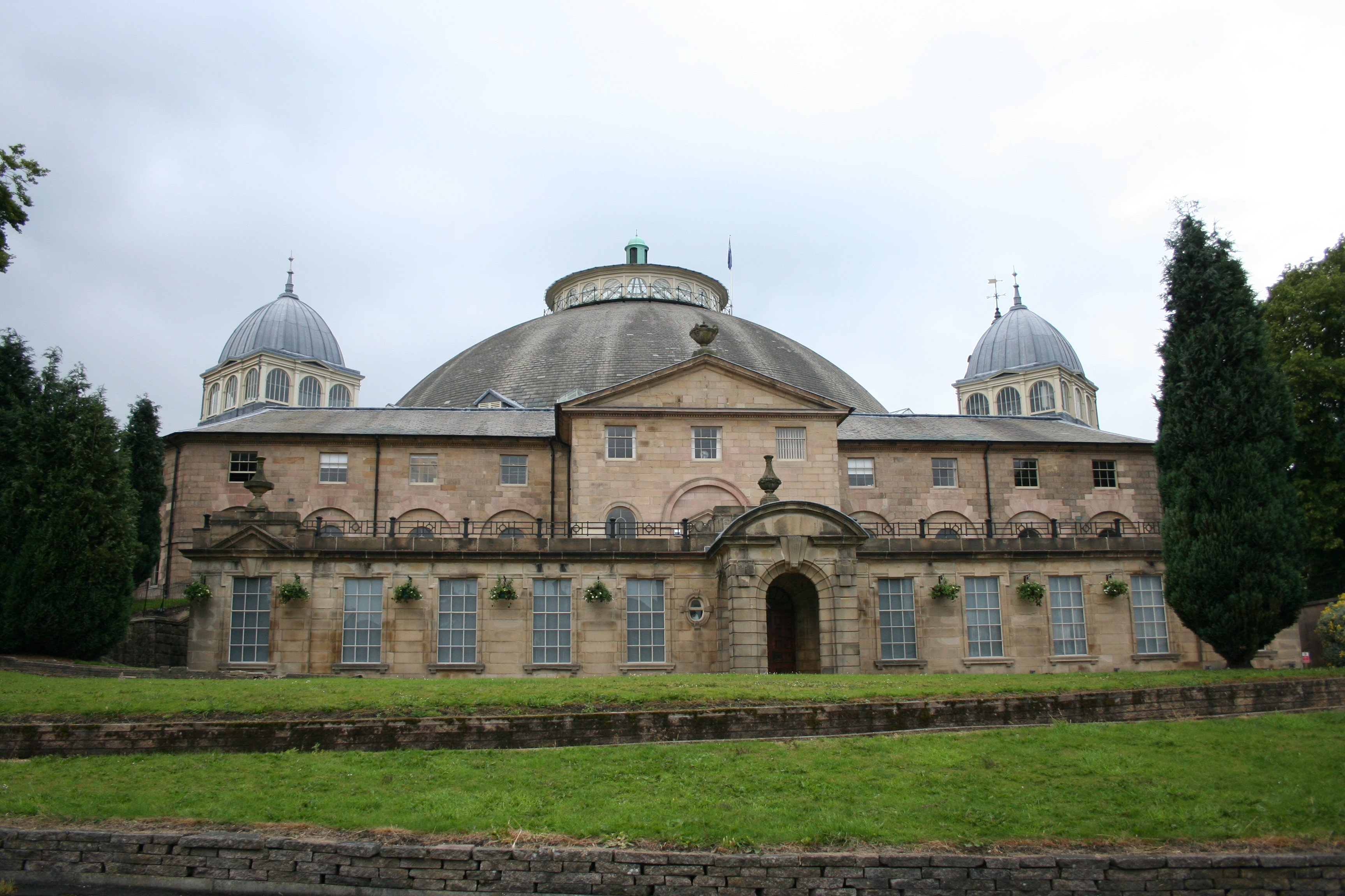 The Devonshire Dome in Buxton, Derbyshire, England. The dome began life as a superior stable! It became the Devonshire Royal Hospital and now serves as the Devonshire Campus of the University of Derby. Description at Images of England.